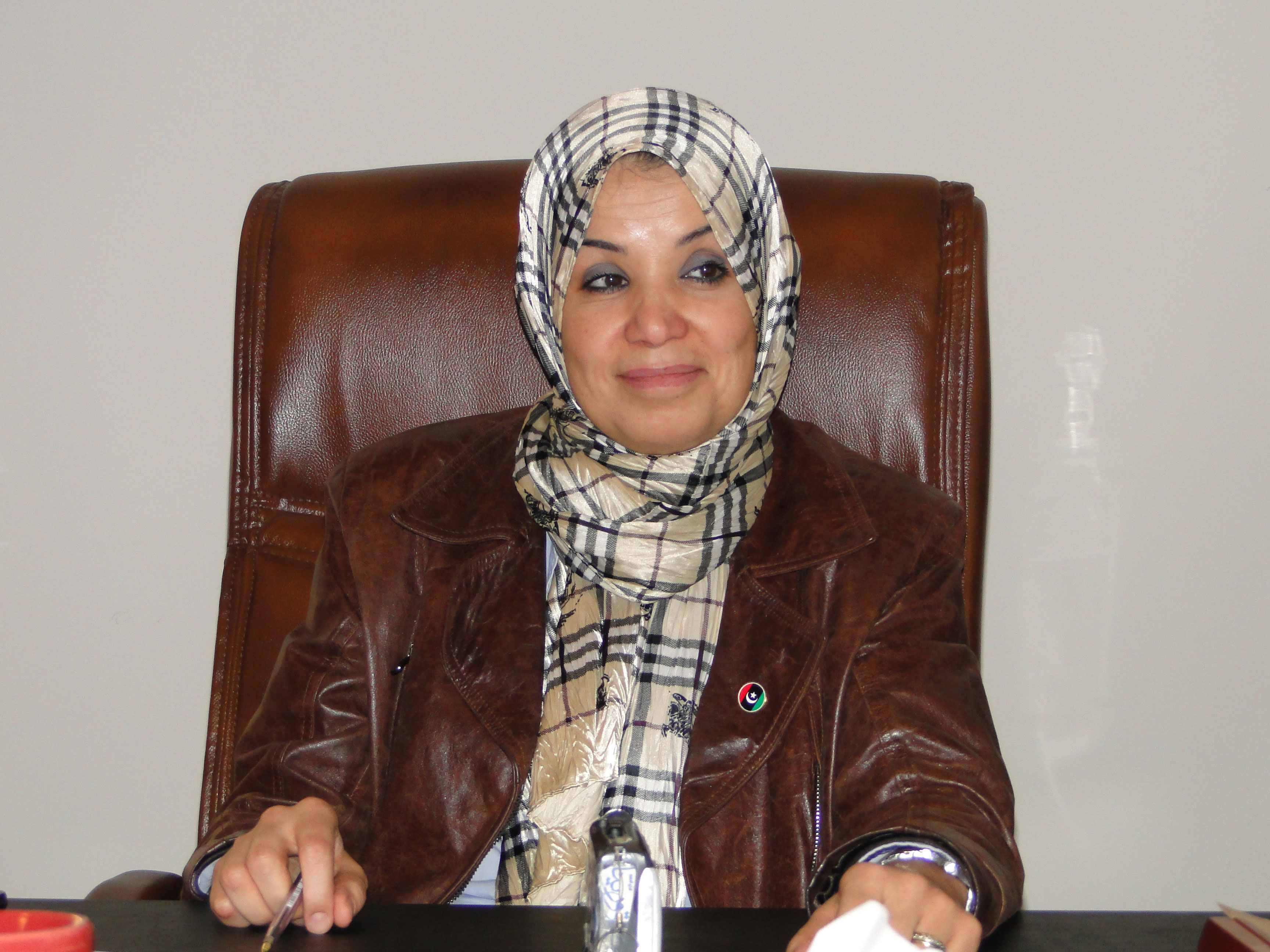 "This phase is a period of transition awaiting the rise of a new Libya," Benghazi lawyer Salwa Fawzi El-Deghali said. Full story